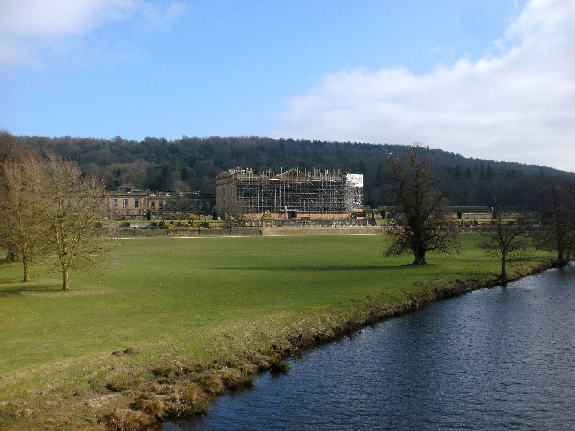 In the grounds of Chatsworth House, Derbyshire, England